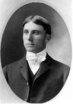 Portrait of Bradbury Norton Robinson, Jr., who threw the first legal forward pass in American football history while a player at St. Louis University in 1906.